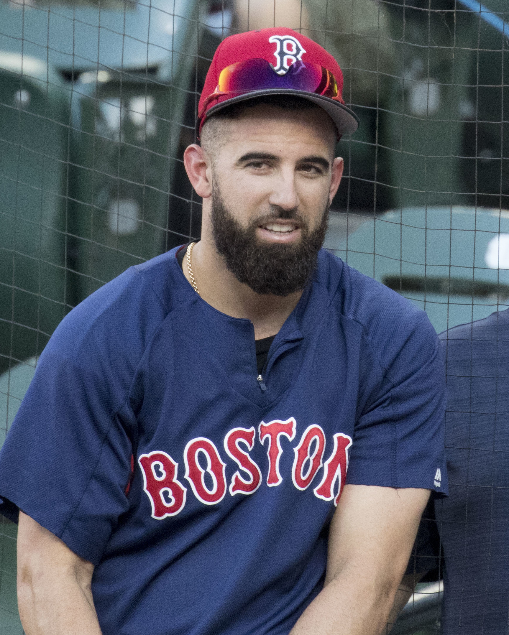 Red Sox at Orioles 9/20/17